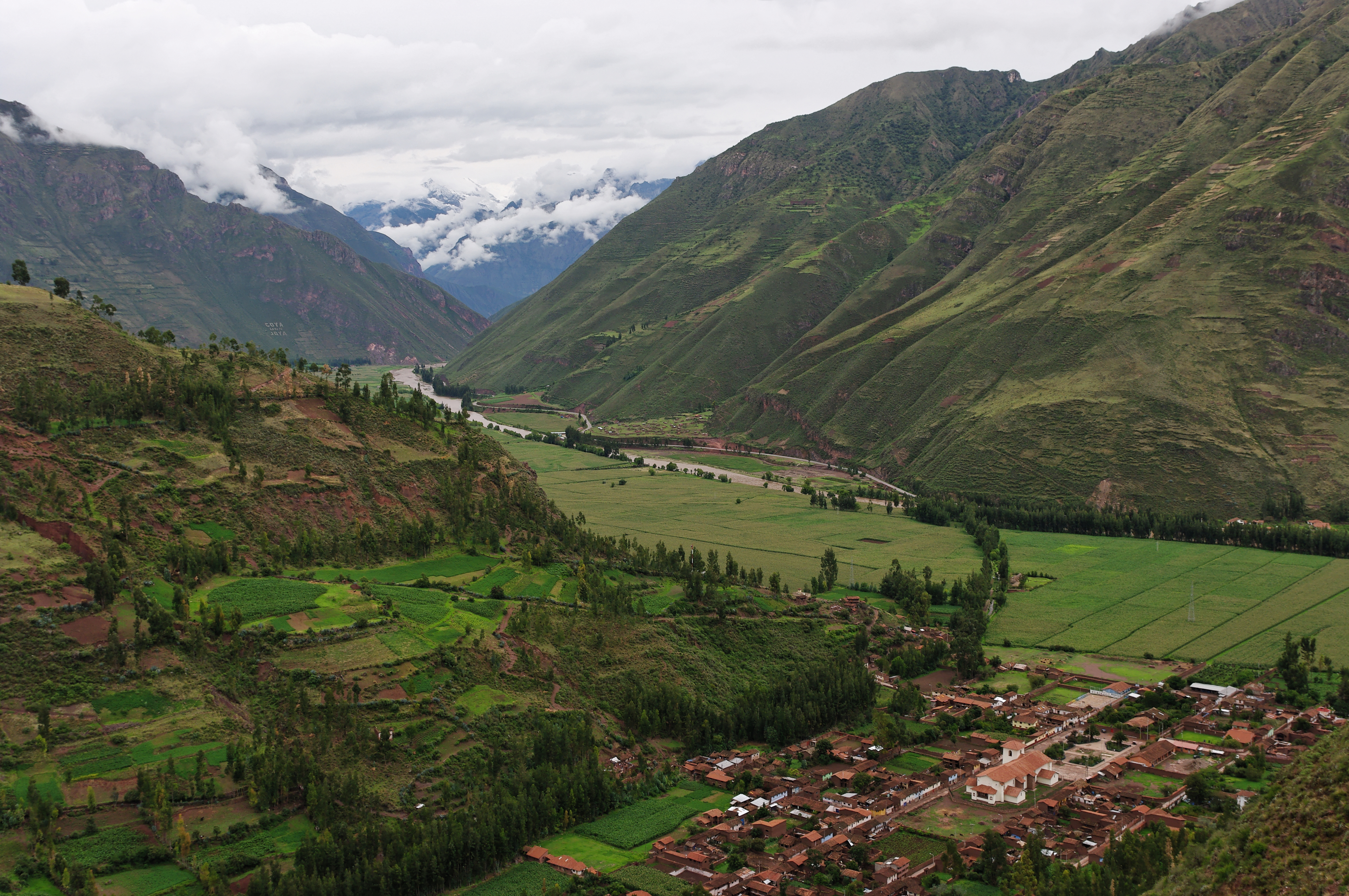 Taray & rio Urubamba, Sacred Valley (around Pisaq), Peru